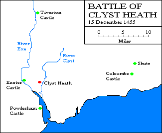 Map of the Battle of Clyst Heath, 15 December 1455, near Exeter, Devon